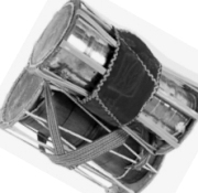 pambai